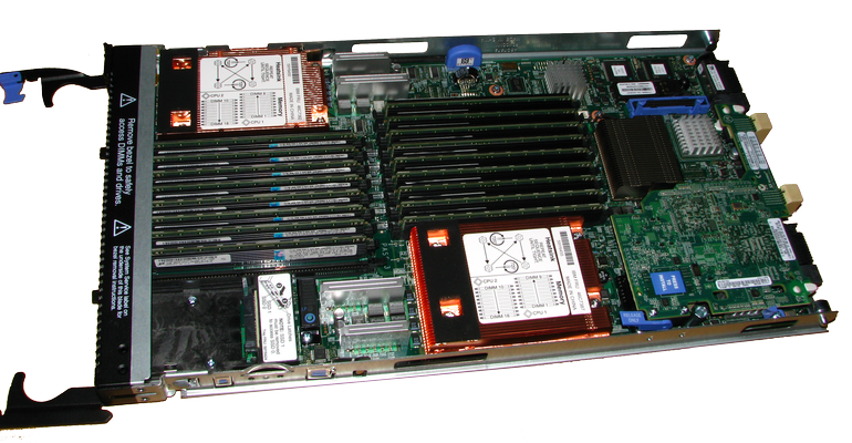 blade server